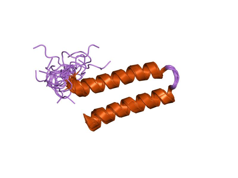 Cartoon representation of the molecular structure of protein registered with 1ysm code.